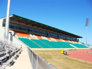 Mayagüez Central American Stadium